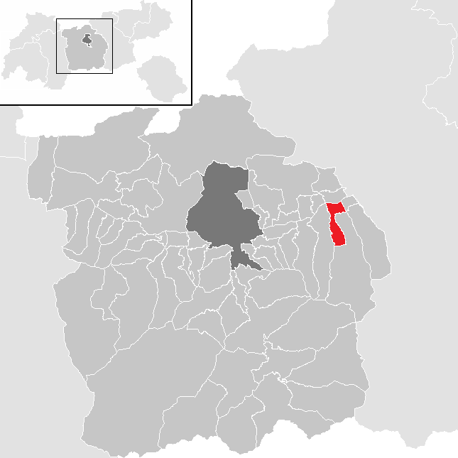 District Innsbruck Land